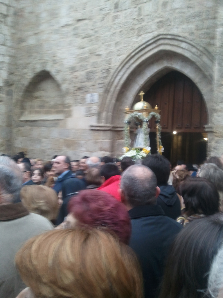 Image of Child Jesus as it gets out of the San Miguel Church starting the religious procession called "El Bautizo del Niño", traditionally held on the eve of 1st January in Palencia, Spain.